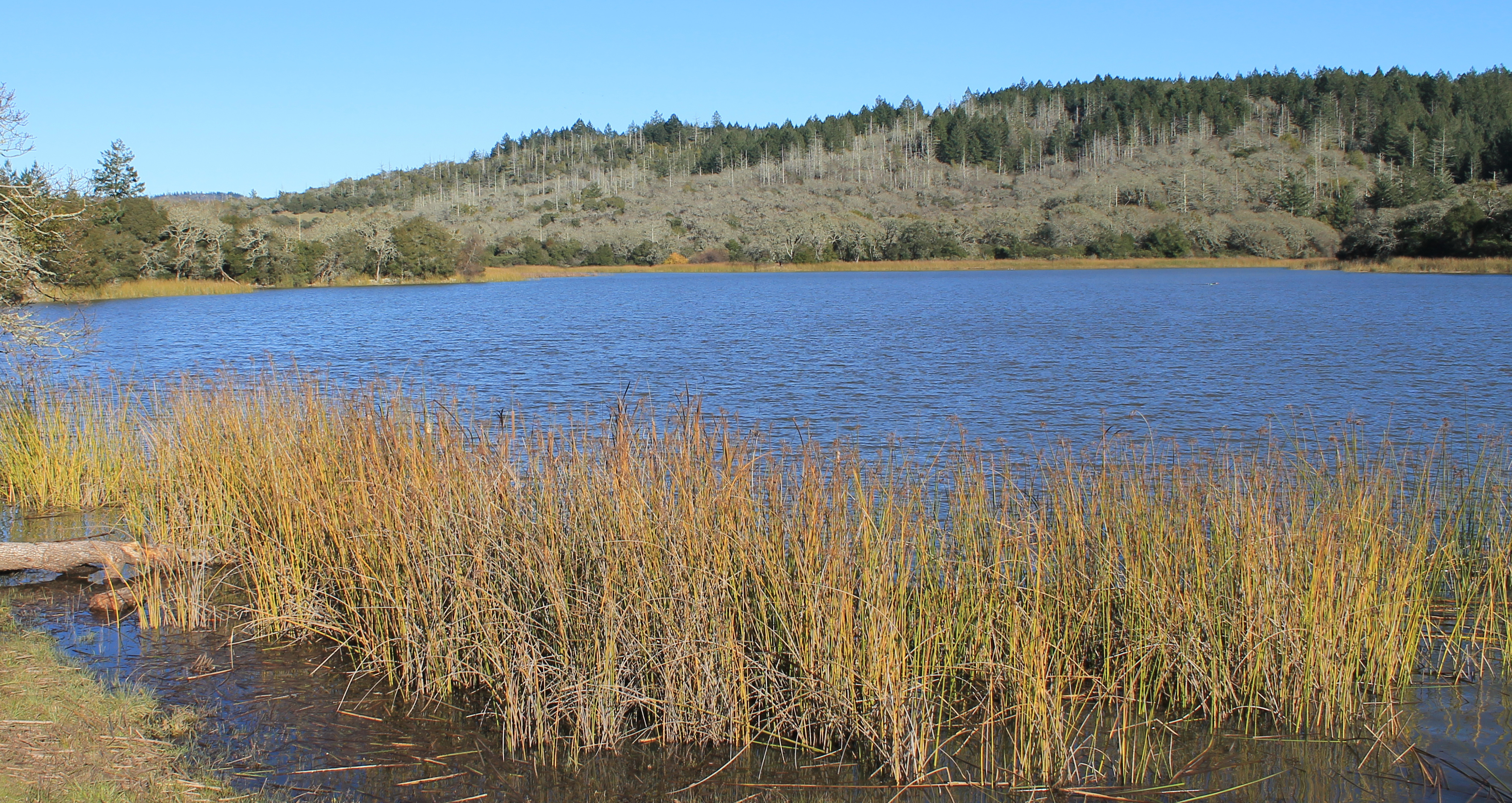 Lake Ilsanjo (in Sonoma County, California) in January 2013, photographed from the dam.